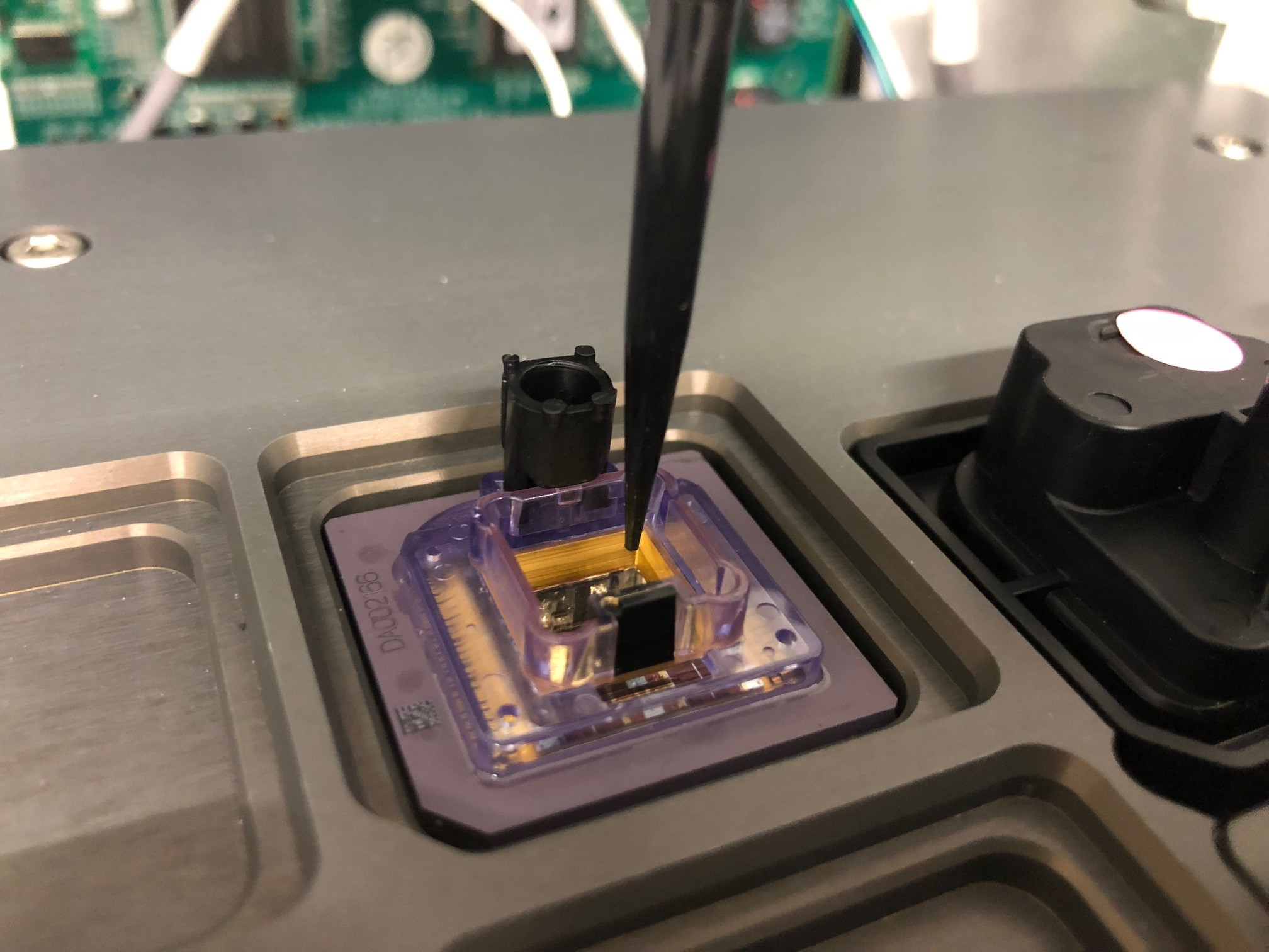 An 8M SMRT Cell being prepared on a Sequel II DNA sequencer. The pipette tip is about to dispense reagents to prepare the cell for sequencing.